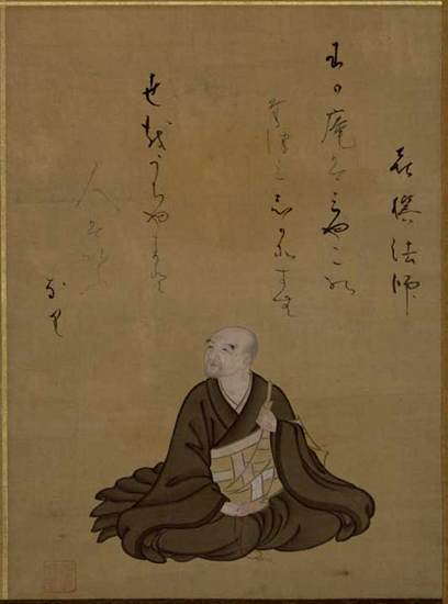 Name: Rokkasen-zu Painter: Tosa Mitsuoki (1617 - 1691) Era: Edo (17 C)